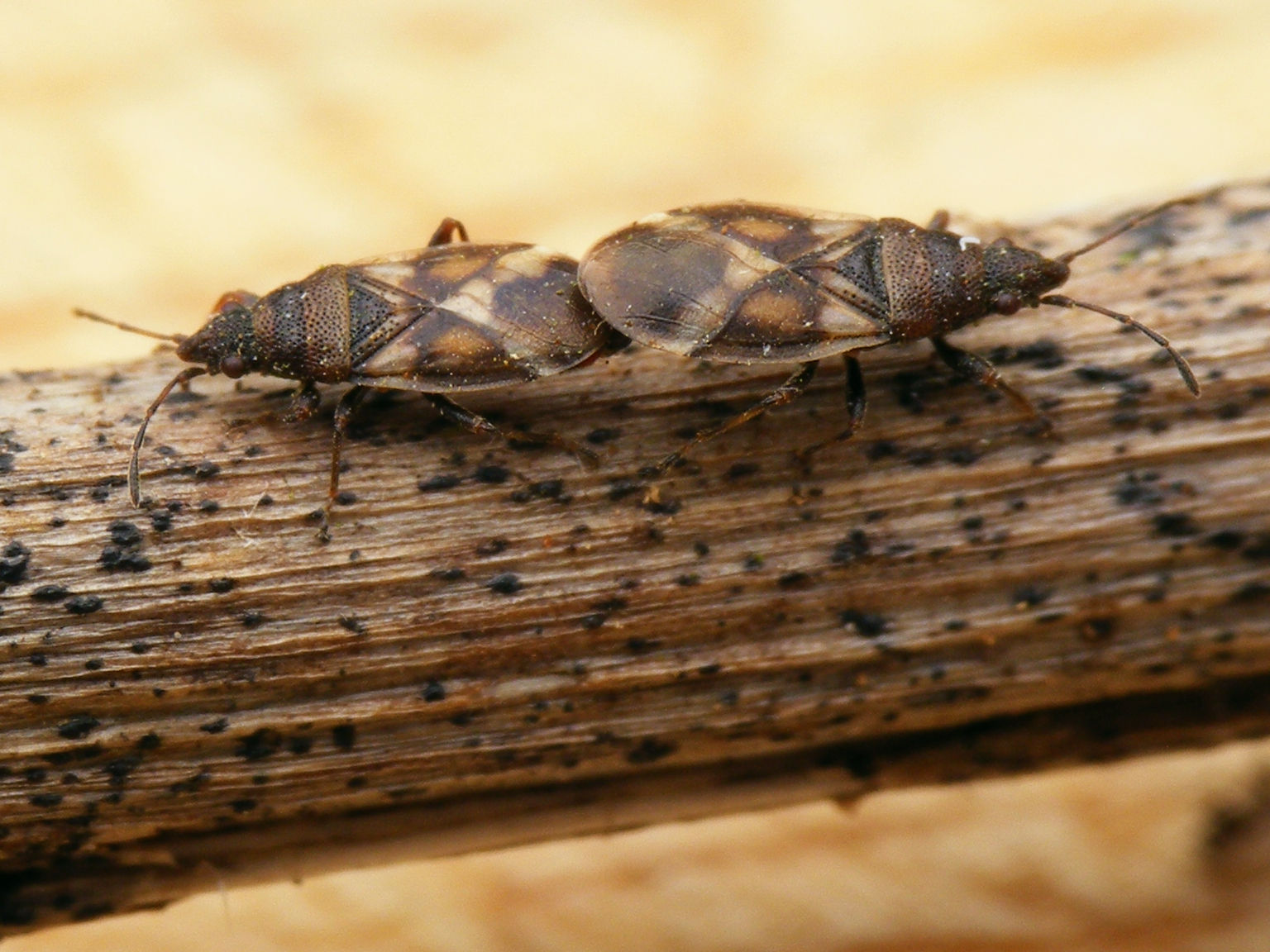 Oxycarenus modestuss, Kiersche Wieden, Overijssel, Netherlands. Various individuals all from the same location/date